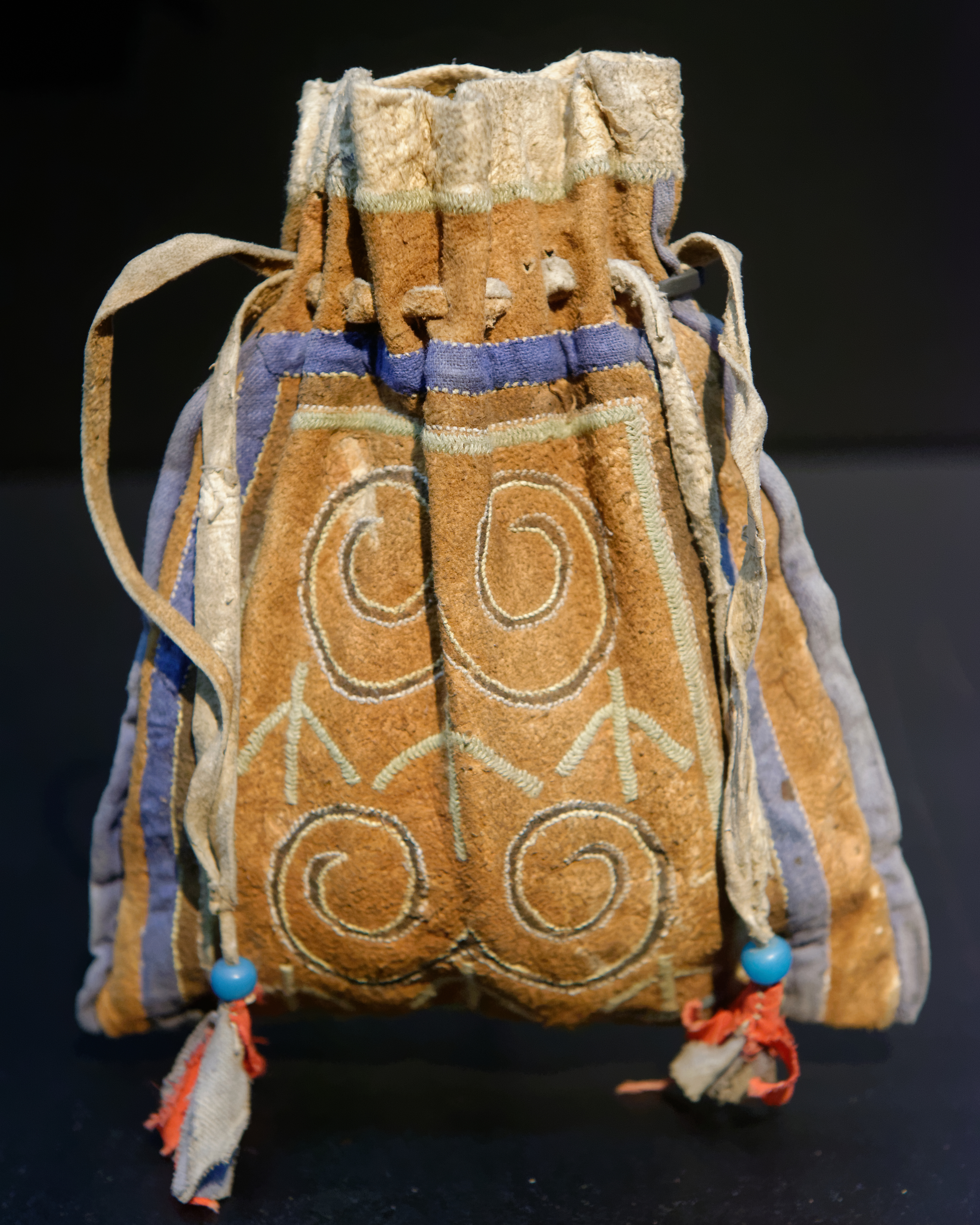 Little bag made from reindeer (Rangifer tarandus) skin, cotton canvas, glass beads and embroidery. Nivkh or Evenki people, Sakhalin island (Russian Federation) or Hokkaido island (Japan).